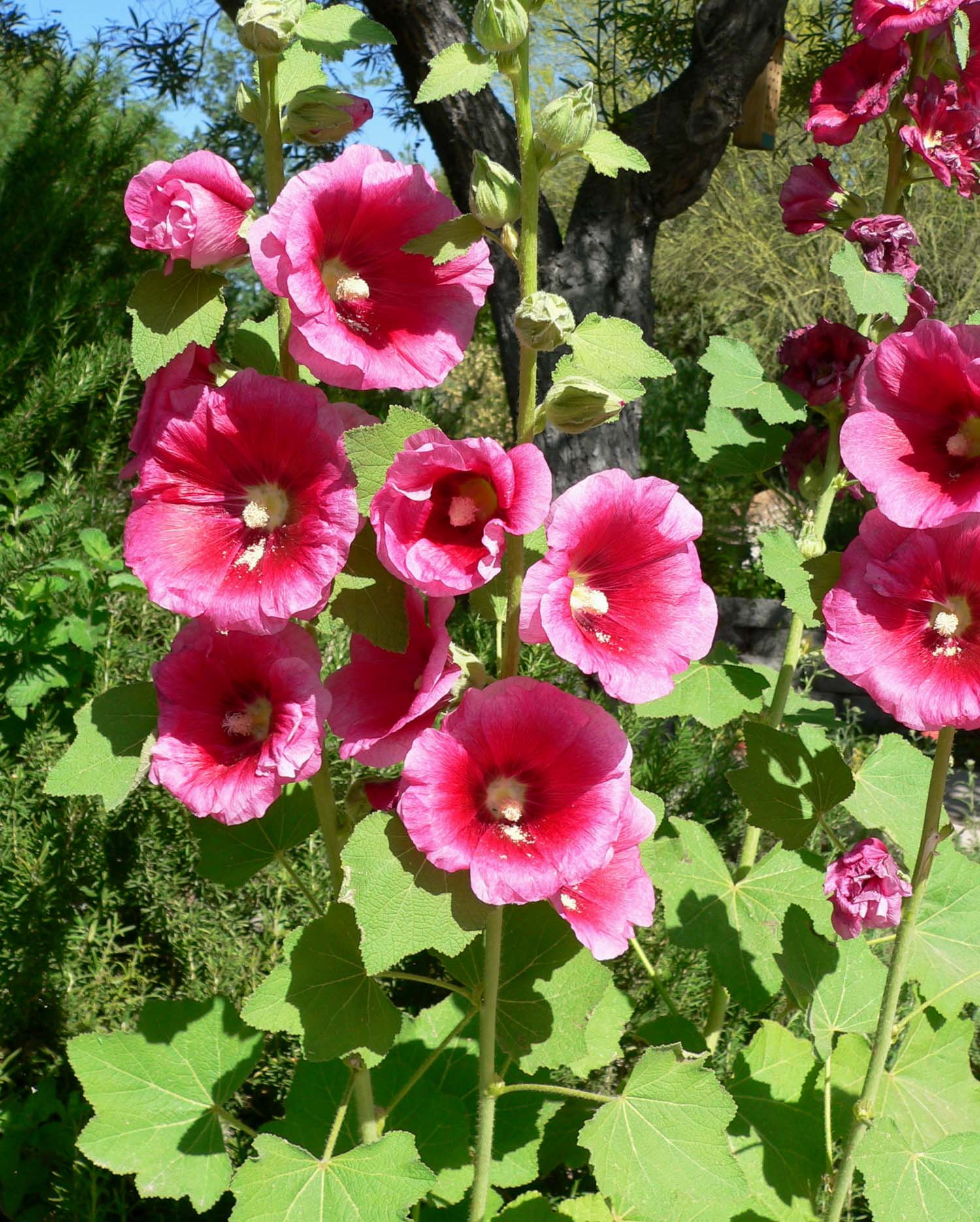 Photo of Alcea_rosea at the Springs Preserve garden in Las Vegas, Nevada